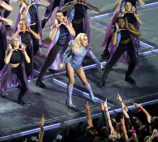 Lady Gaga performs "Born This Way" during the Super Bowl LI halftime show.